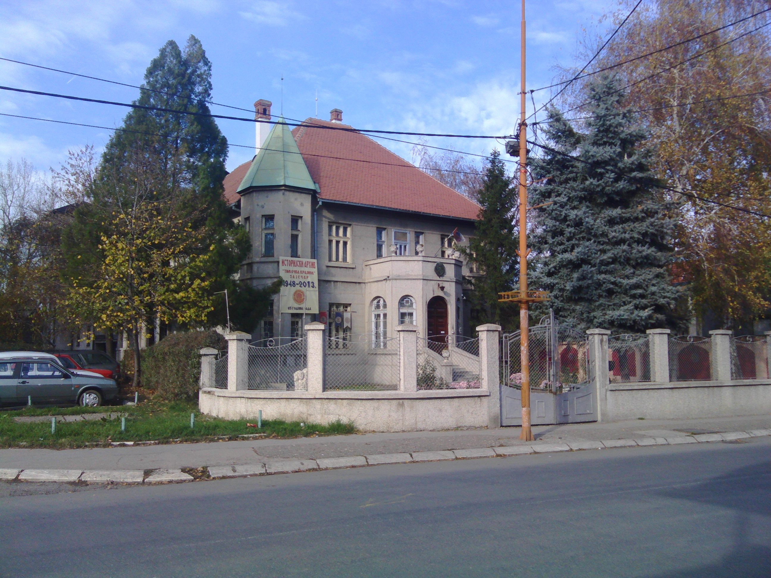 Historical Archive "Timočka krajina" from Zaječar, Serbia 2